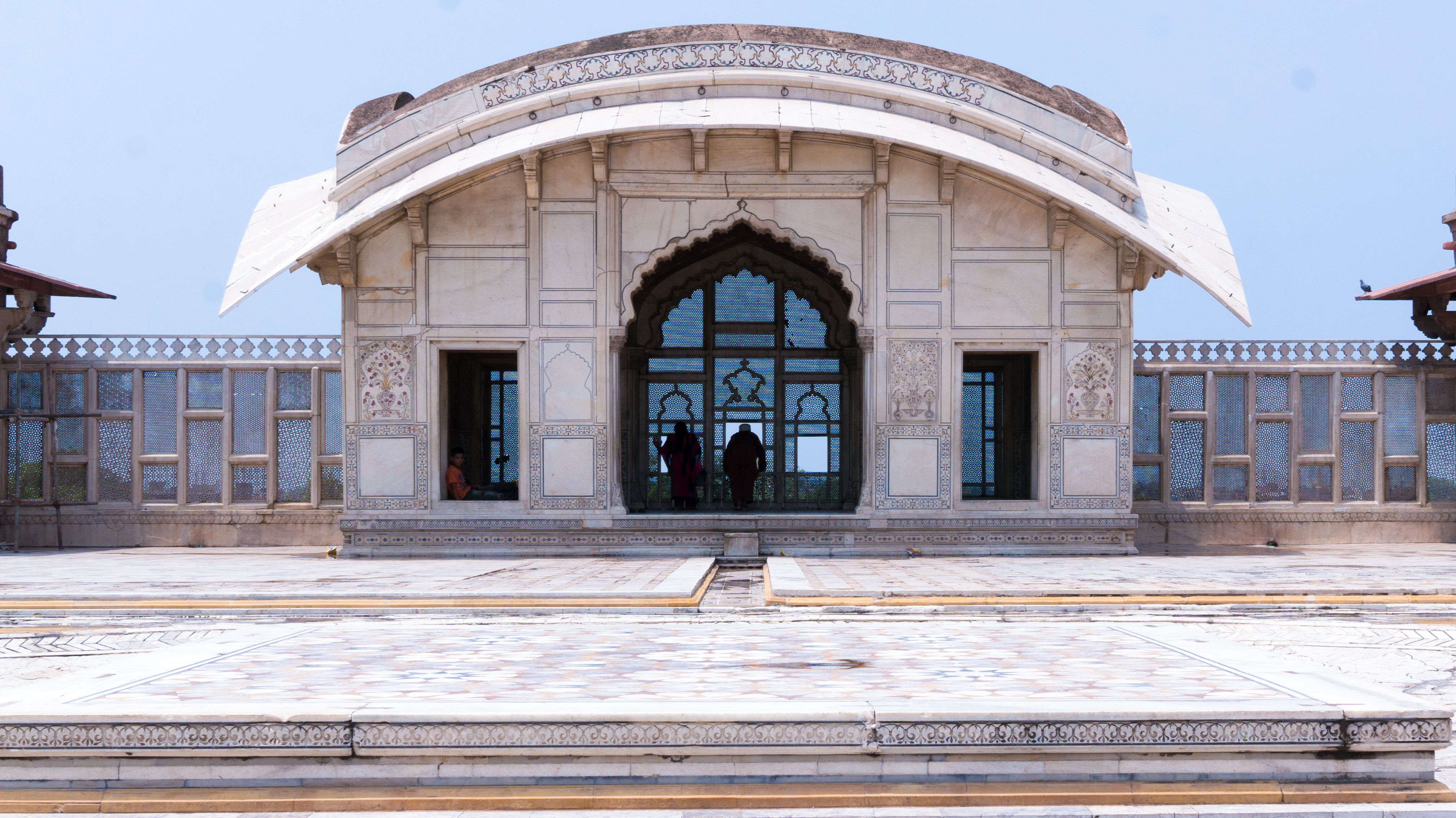 Lahore Fort complex (including Moti Masjid, Naulakha Pavilion, Sheesh Mahal and others) This is a photo of a monument in Pakistan identified as the PB-67